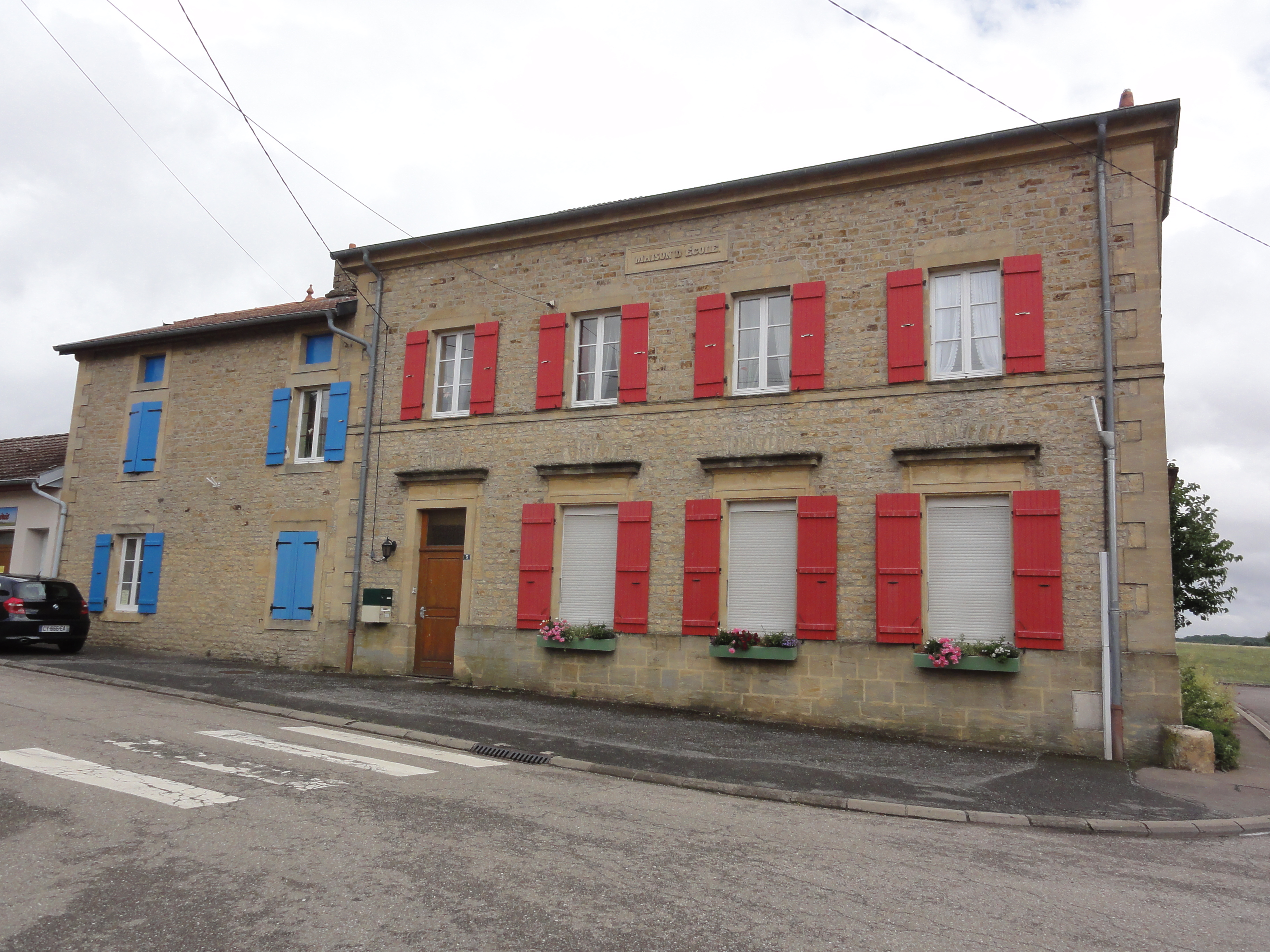 Baslieux (Meurthe-et-M.) maison d'école